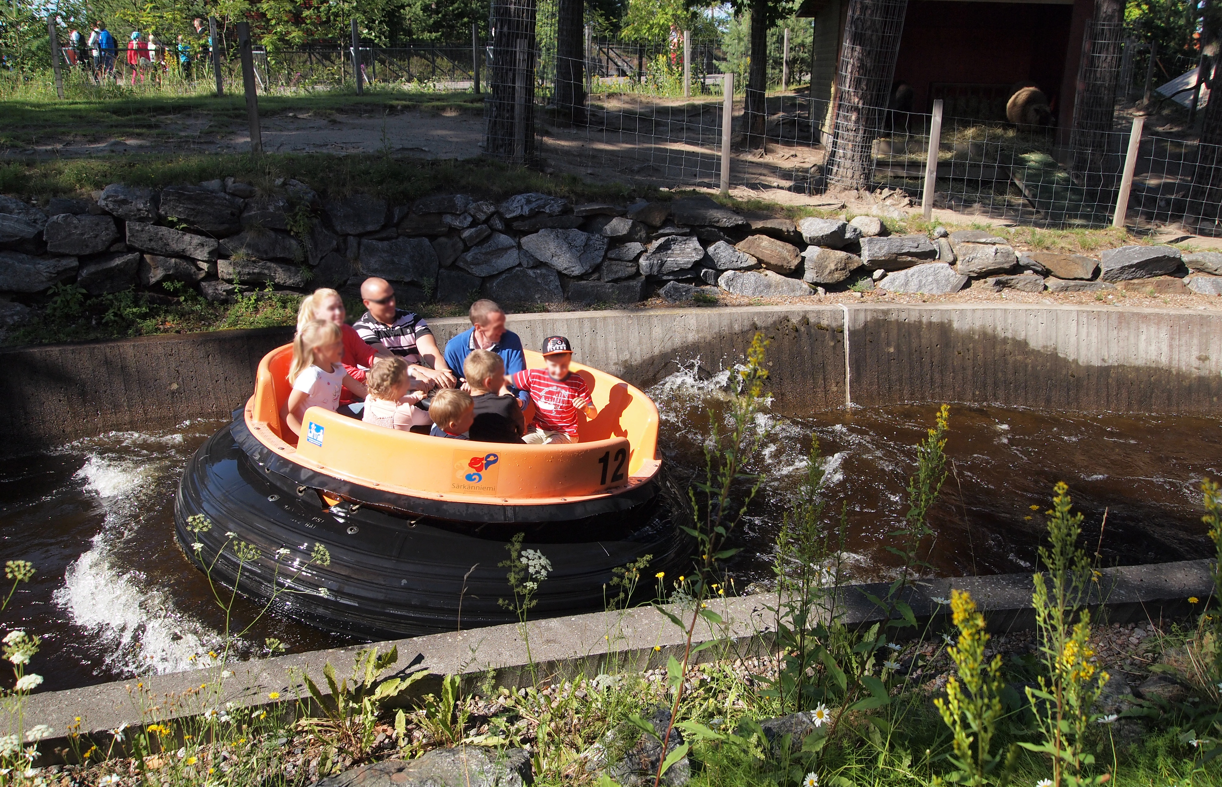 Koskiseikkailu ride in Särkänniemi amusement park, Tampere. This photograph was taken with a Olympus E-PL1.